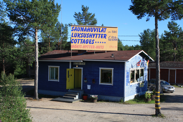 Reception